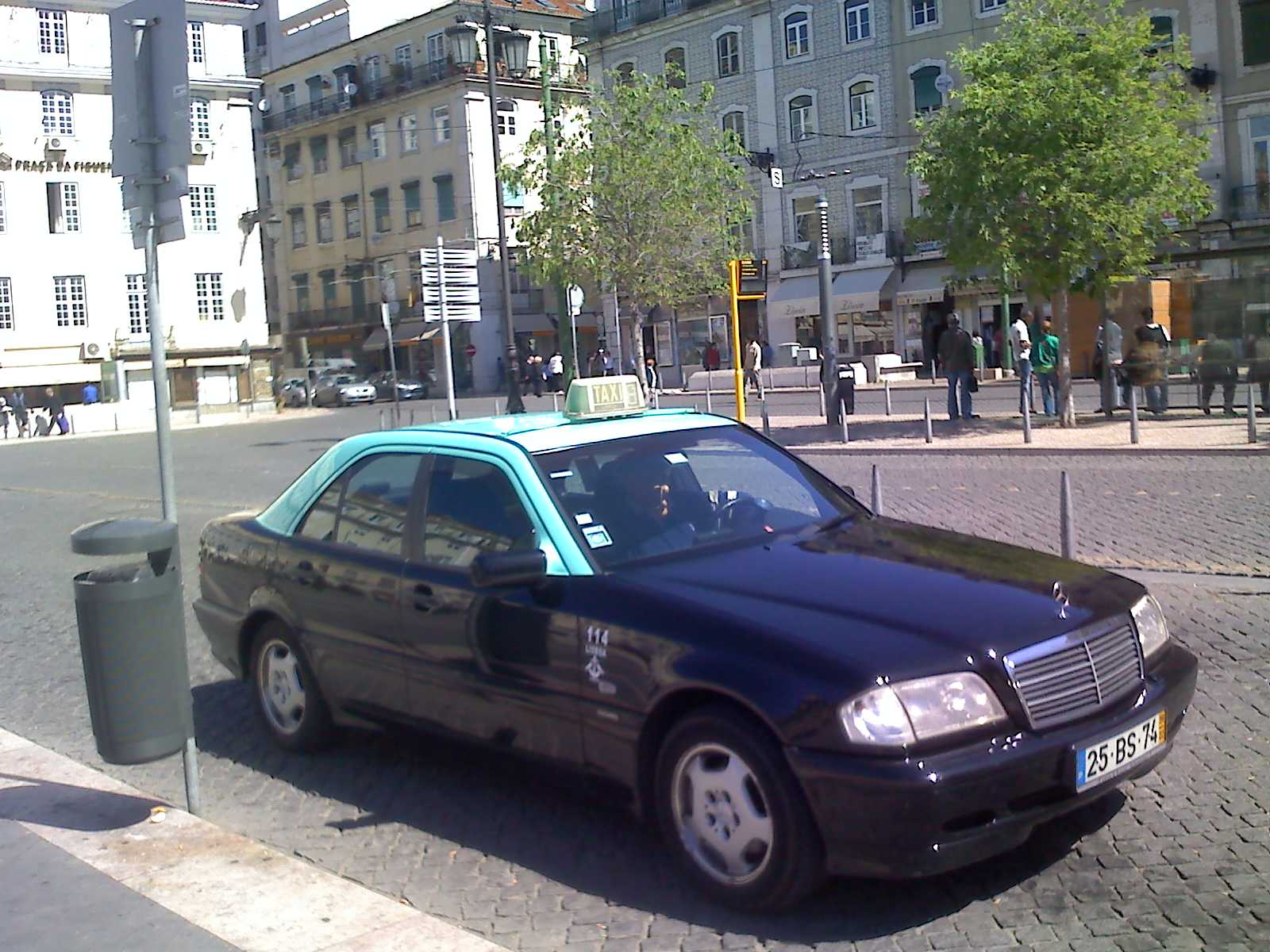 Lisbon taxi - green and black livery